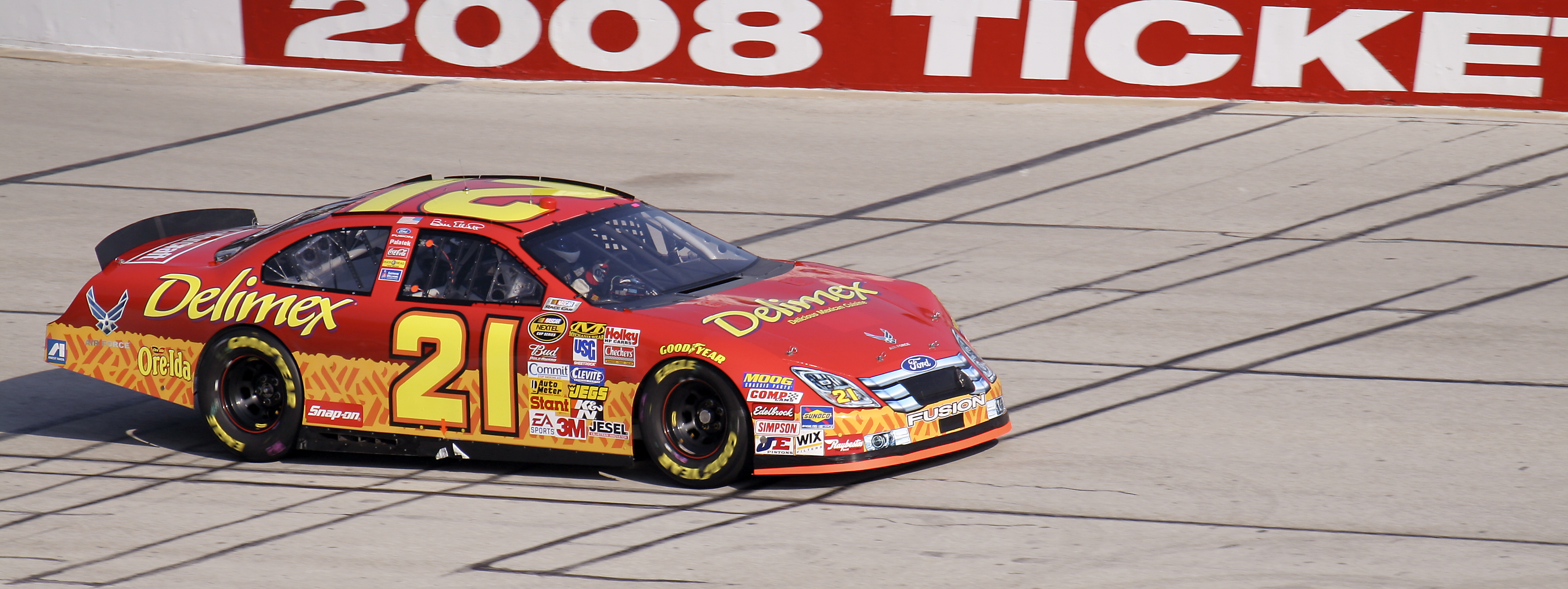 NASCAR driver Bill Elliott driving in the Wood Brothers Racing #21 car in 2007Bill Elliott